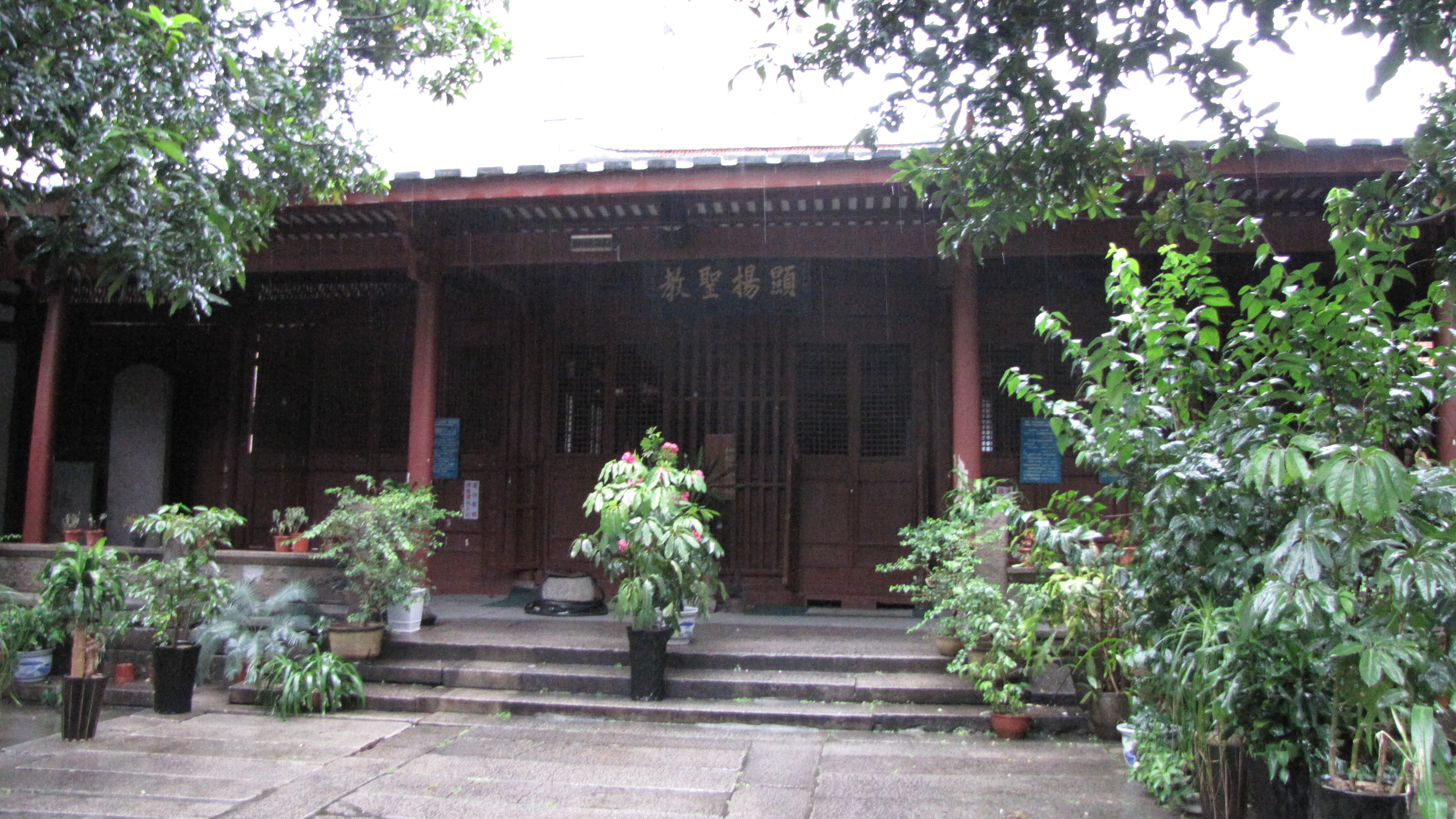 The main hall of Foochow Mosque, Fuzhou, China